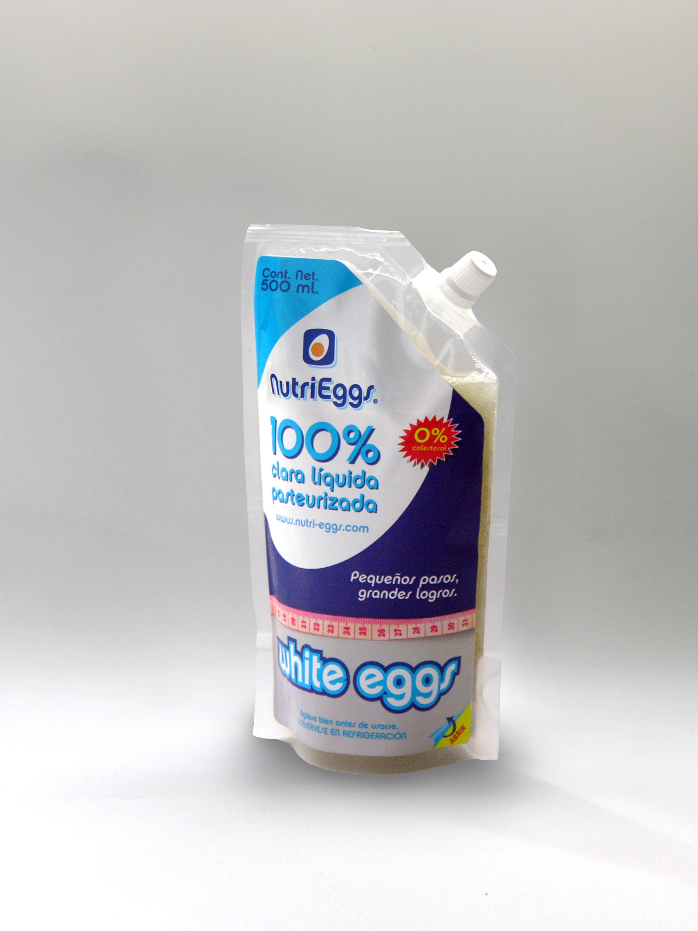 Package of pasteurized egg whites